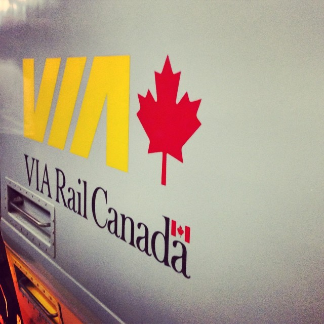 VIA Rail Canada 2014-07-30 1406684232